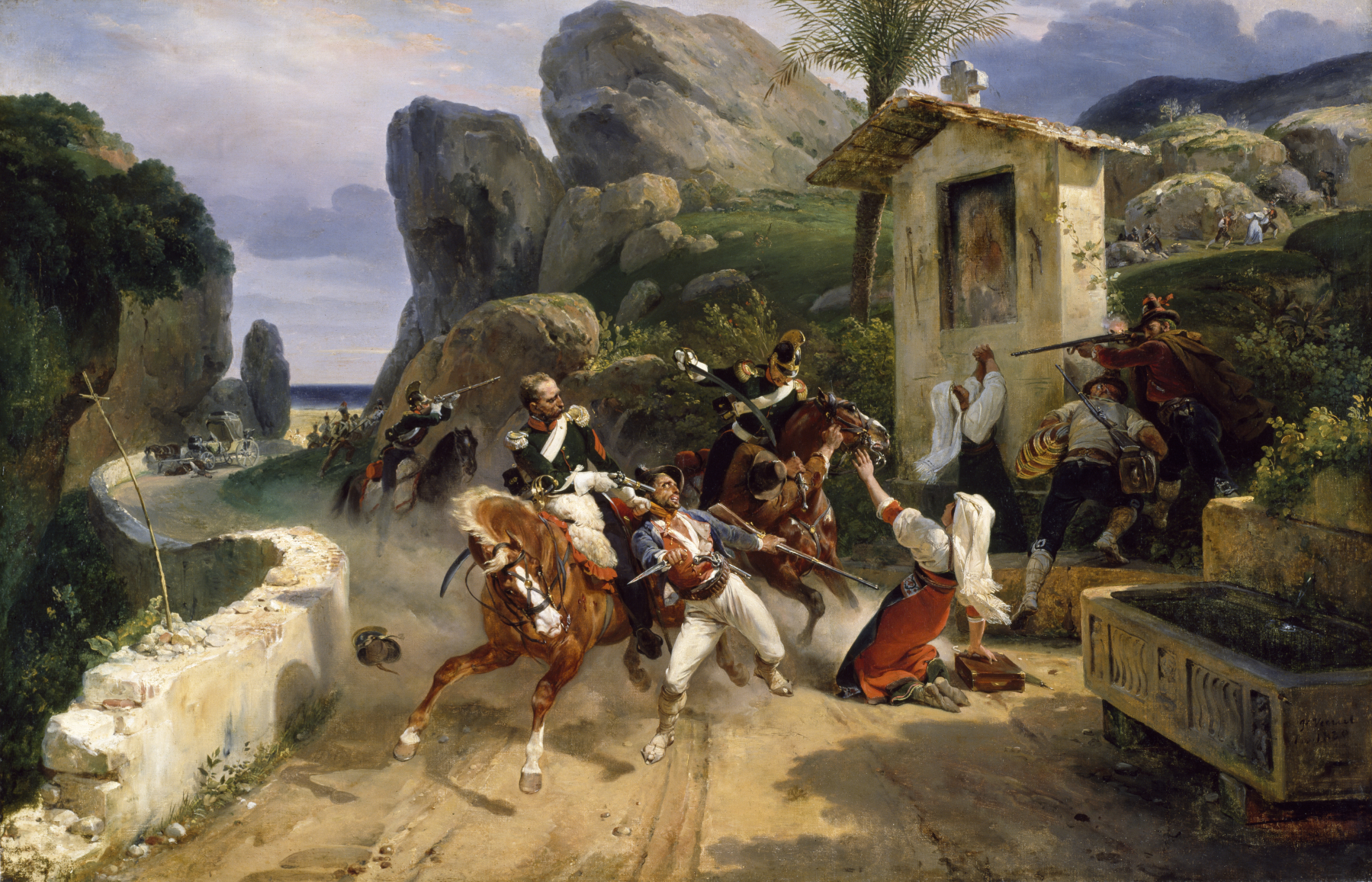 In this scene, papal troops intercept brigands who are looting a coach and carrying off its passengers. During the 19th century, brigands, or "banditi," posed a real threat to travelers in rural areas of the Italian states, but they were also idealized as daring outlaws. Horace Vernet, the director of the Académie de France in Rome (1828-34) and professor at the École des Beaux-Arts in Paris (1835-63), was regarded as a leader of the "juste-milieu," or the middle course between the opposing Romantic and Neoclassical factions in French painting. He chose dramatic, often contemporary, subjects but rendered them with the smooth brushwork and attention to detail associated with the Academic tradition.